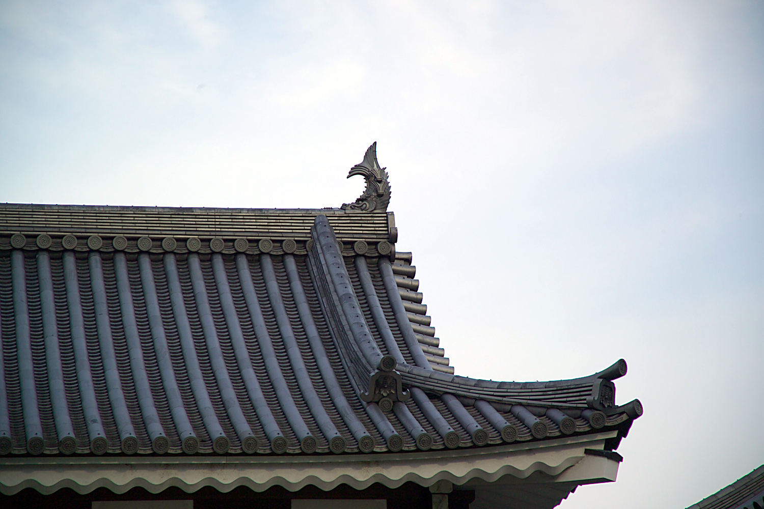 Detail on tiled roof of the Castle Keep Tower at Hiroshima Castle — in Hiroshima, Japan. I took this photo.